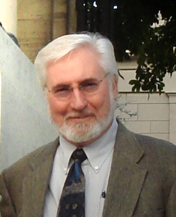 Dr. Tracy taken outside.